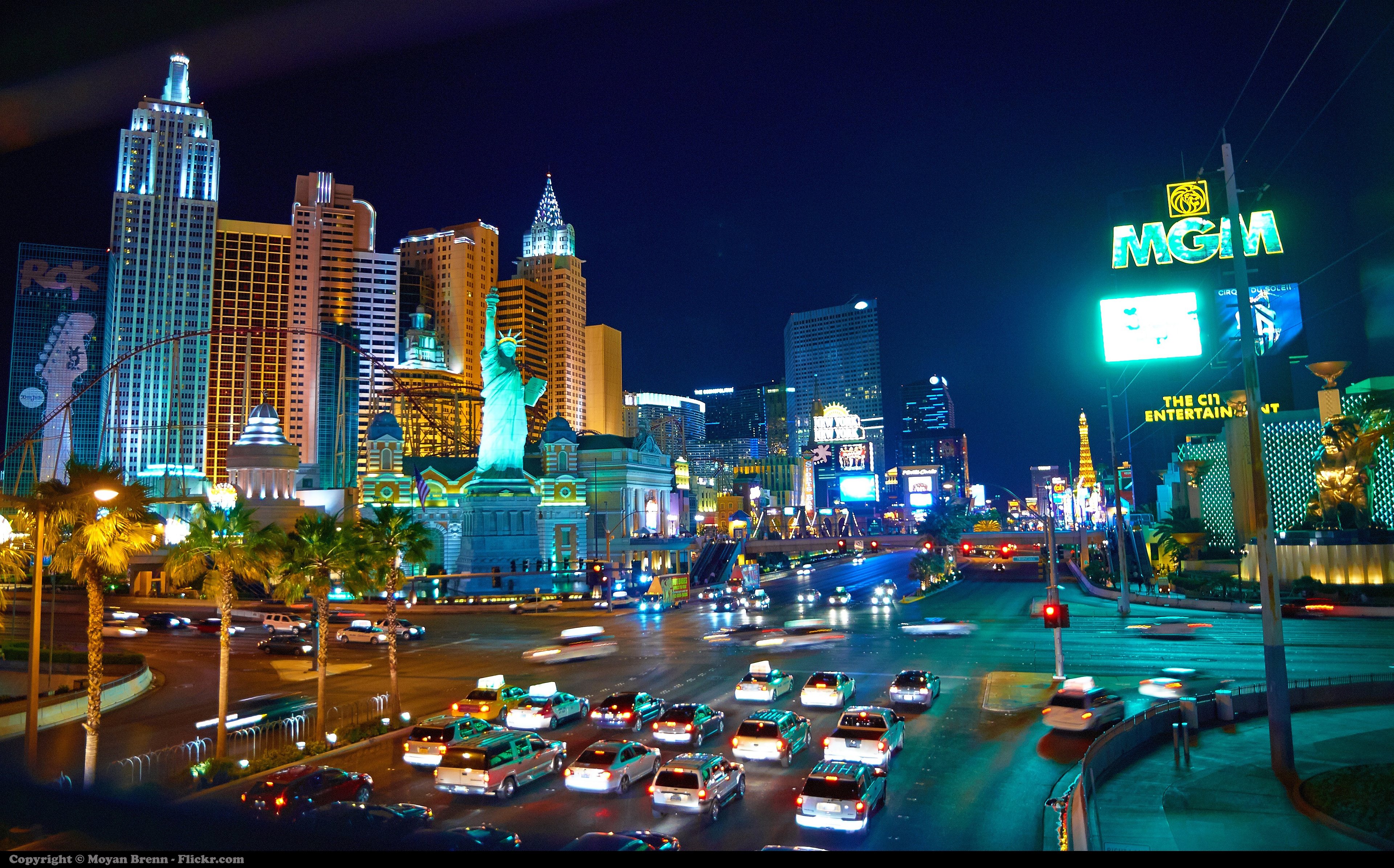 view of a wide roads intersection in the evening